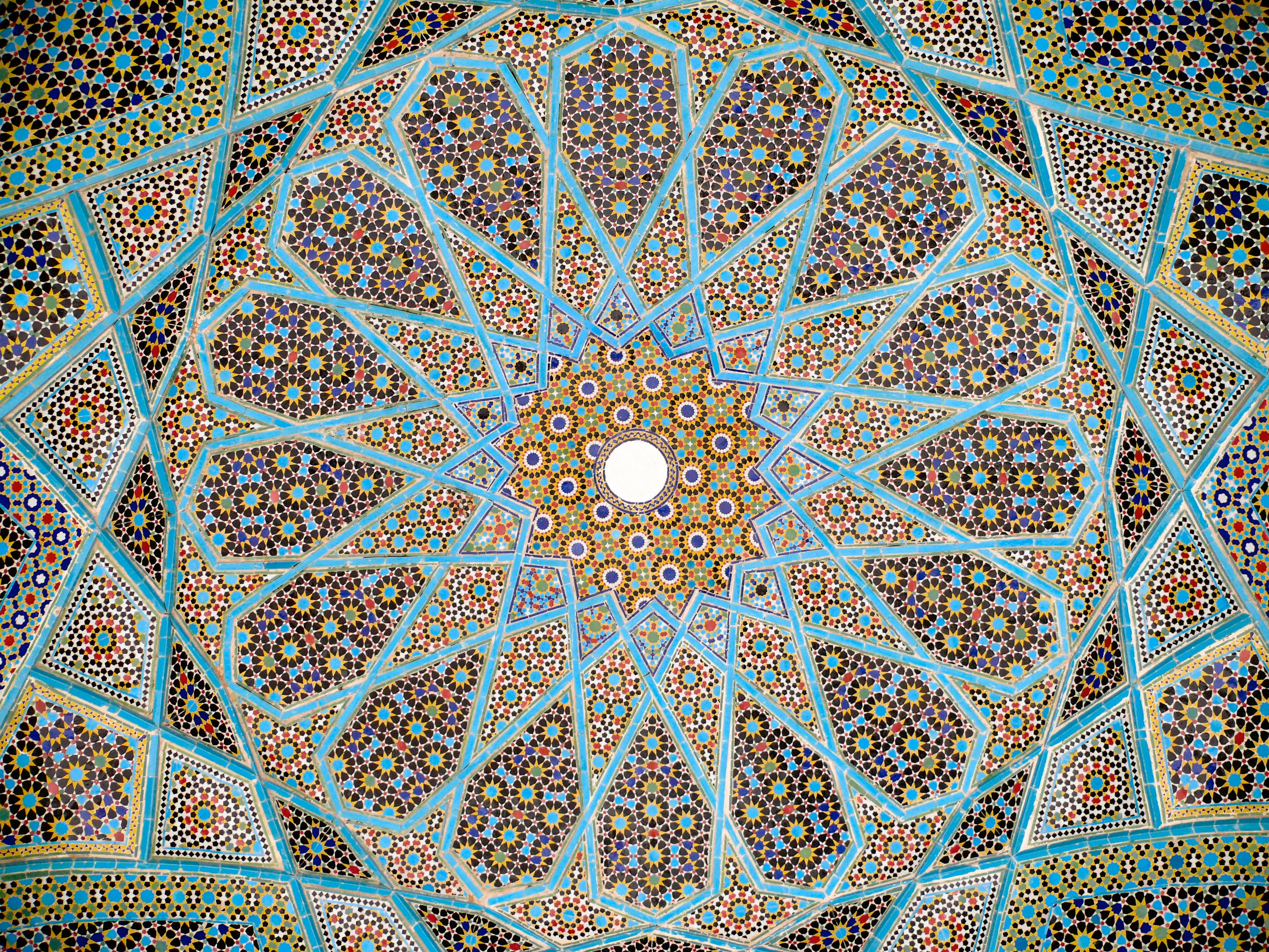 Iranian glazed ceramic tile work, from the ceiling of the Tomb of Hafez in Shiraz, Iran. Province of Fars.